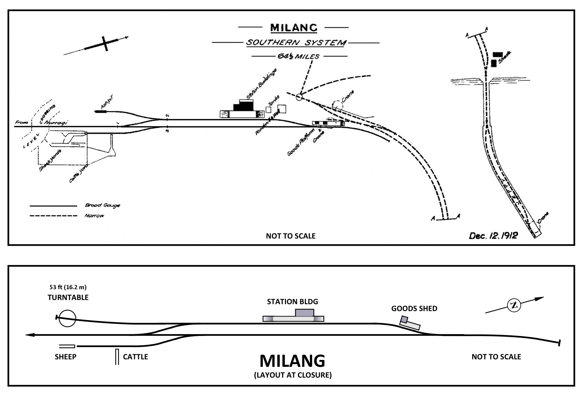 Two drawings of the railway station yard at Milang (South Australia) in 1912 and 1970. The upper drawing is a South Australian Railways document in the public domain; the lower one is CC0.